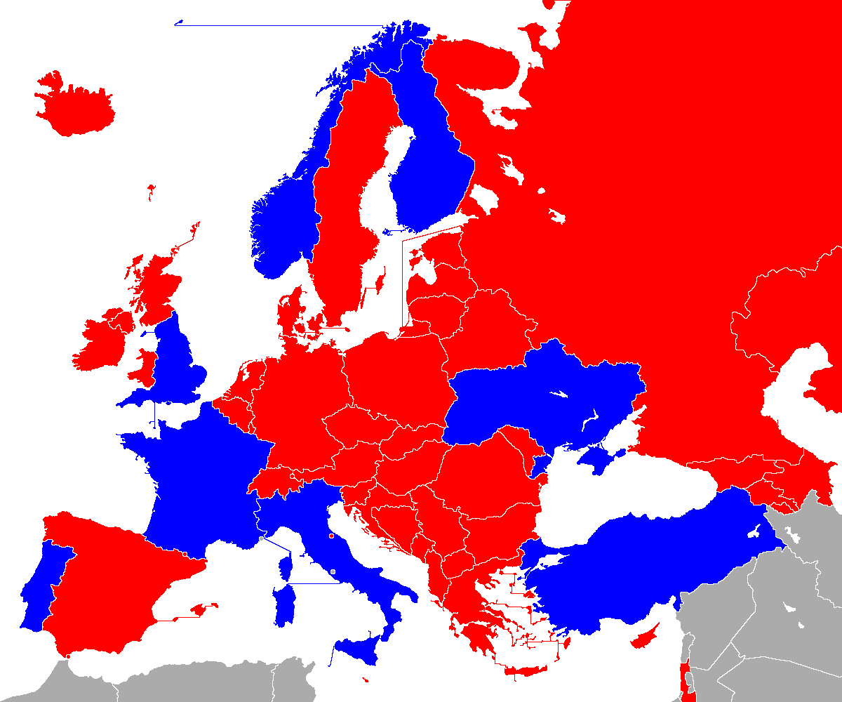 2018 EURO U-19 Qualifiers